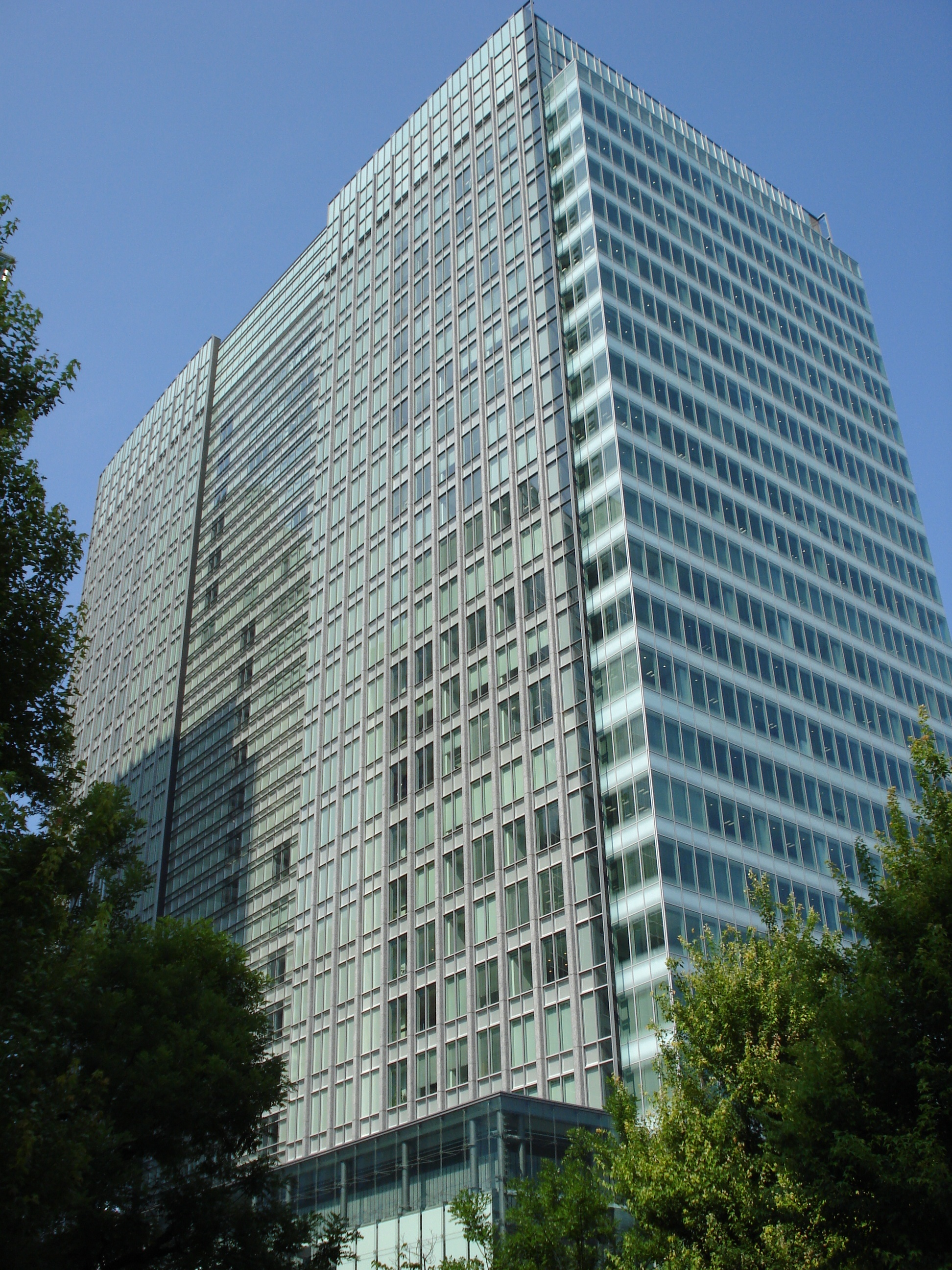 Building